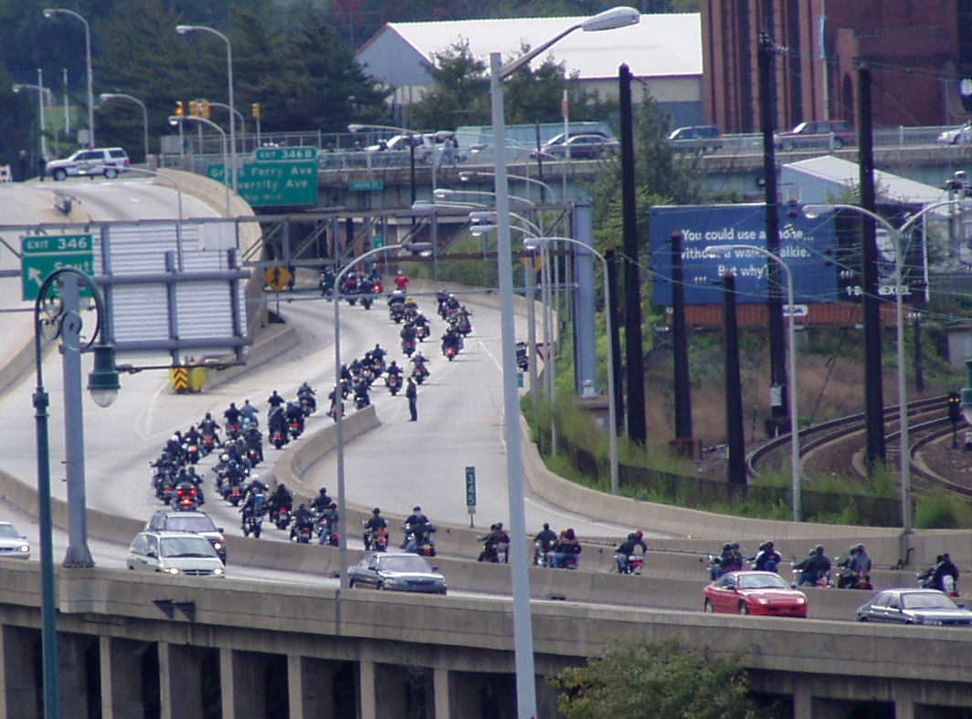 Taken in Philadelphia, Pennsylvania, in November 2002. Motorcyclists fill eastbound I-76 (Philadelphia) for the 2002 Toys for Tots parade to benefit patients at Children's Hospital of Philadelphia.